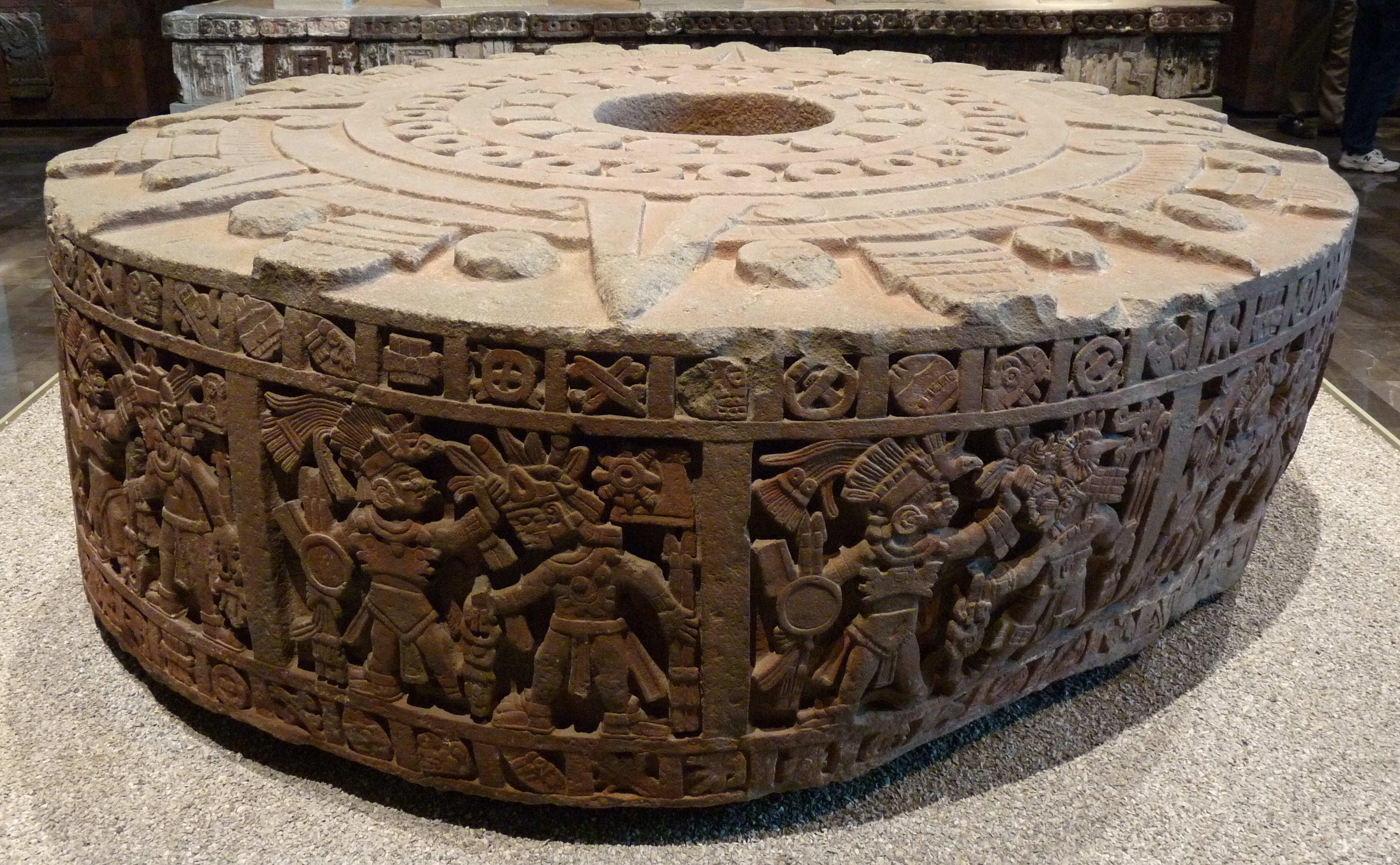 Moctezuma's Stone (mexica room of the National Museum of Anthropology of Mexico).